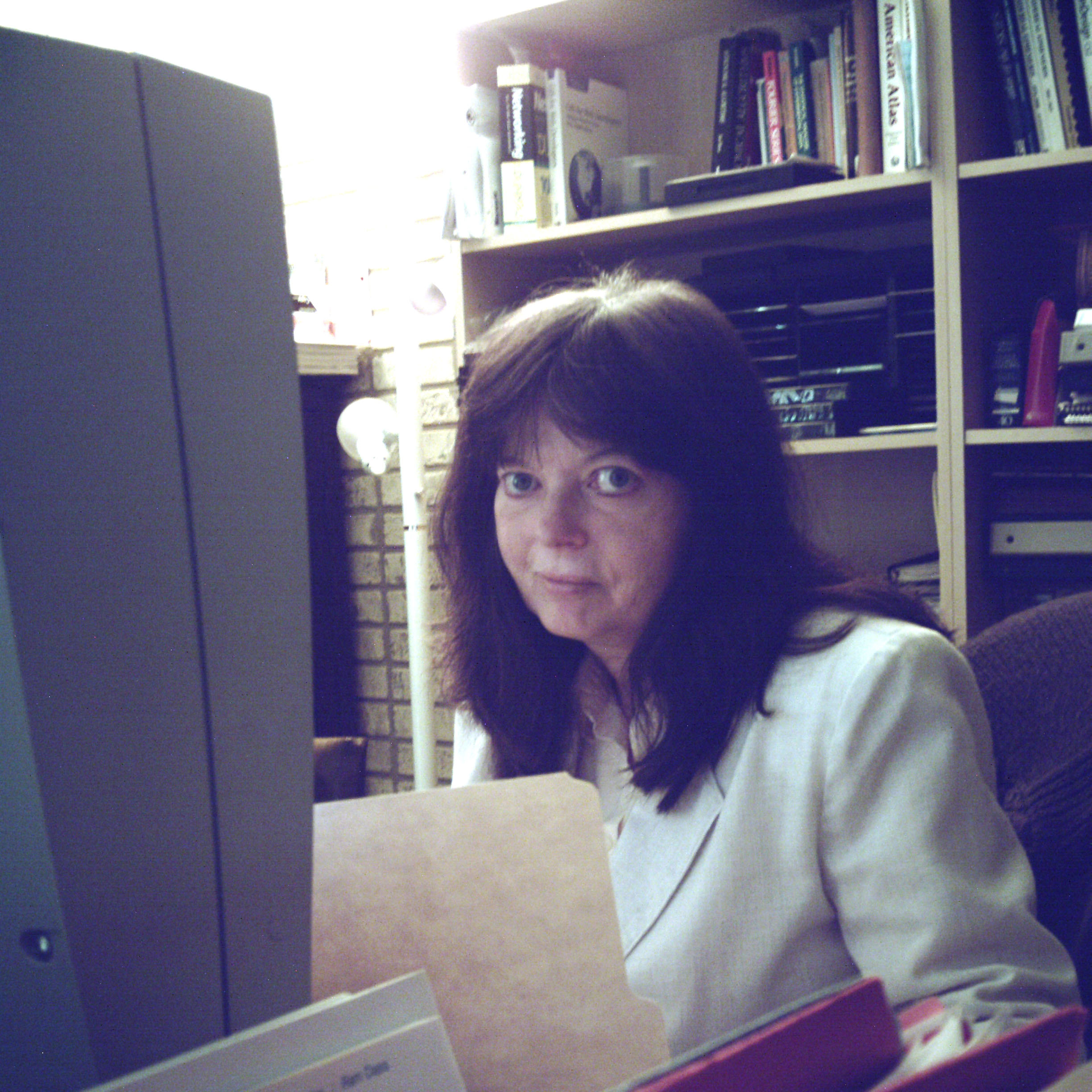 Photo of Linda Johnsen